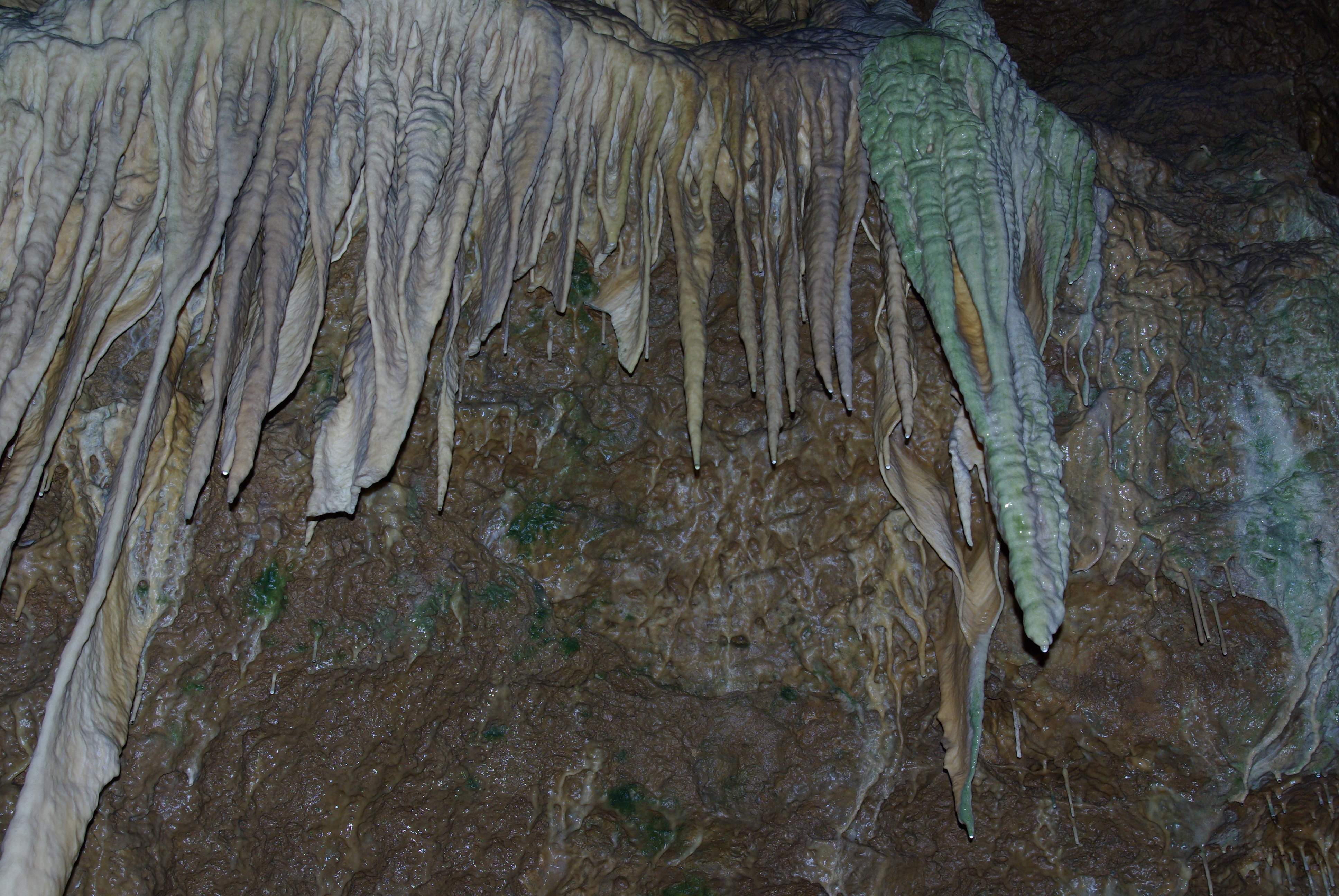 Devil's Cave (near Pottenstein)